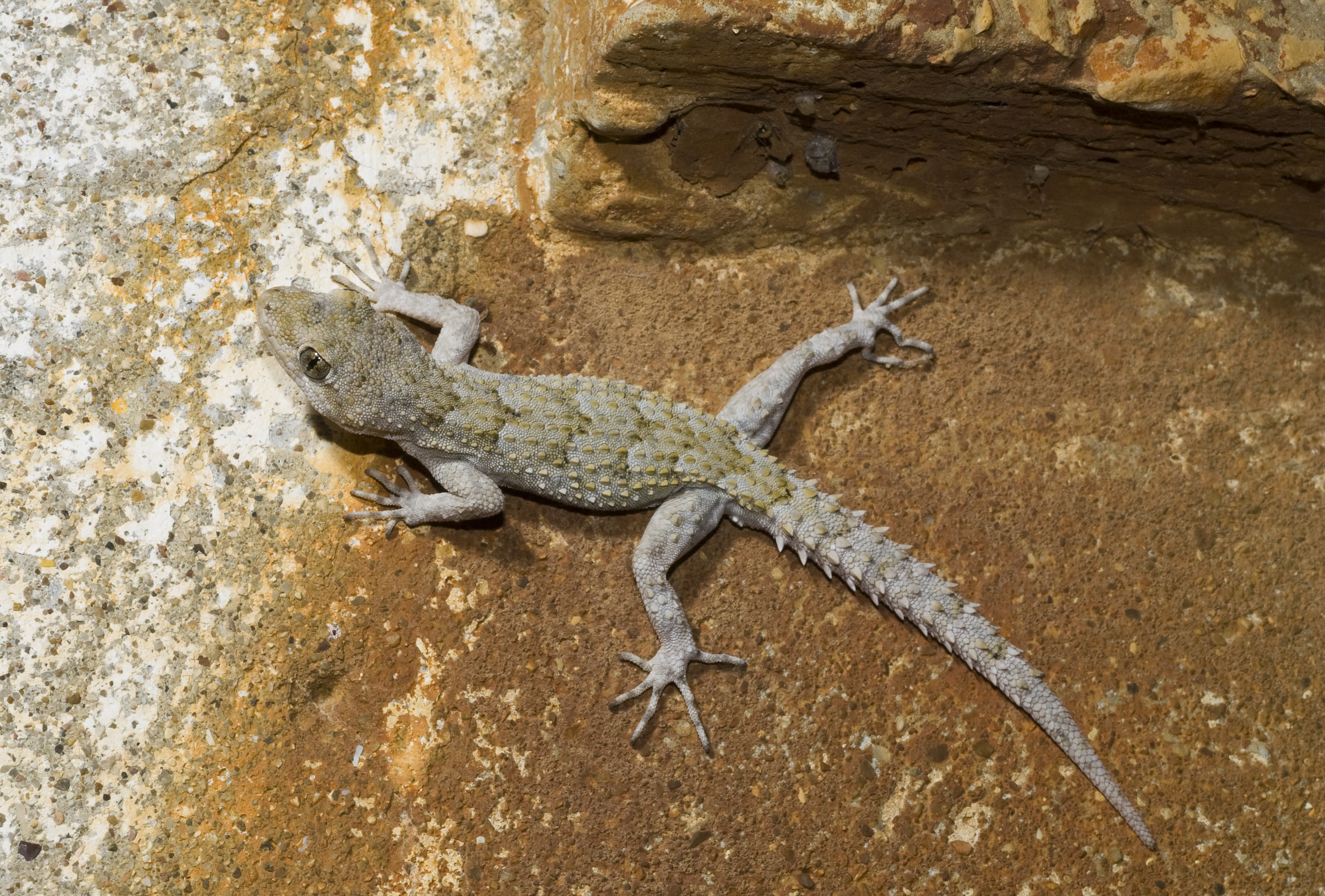 Mediodactylus kotschyi